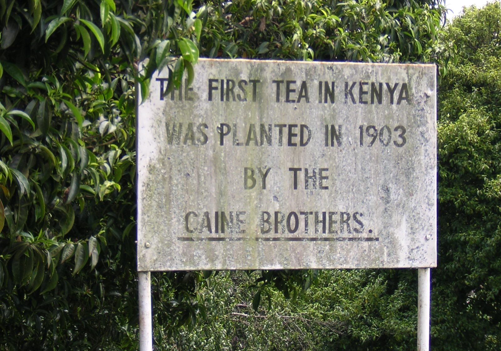 Kenya tea